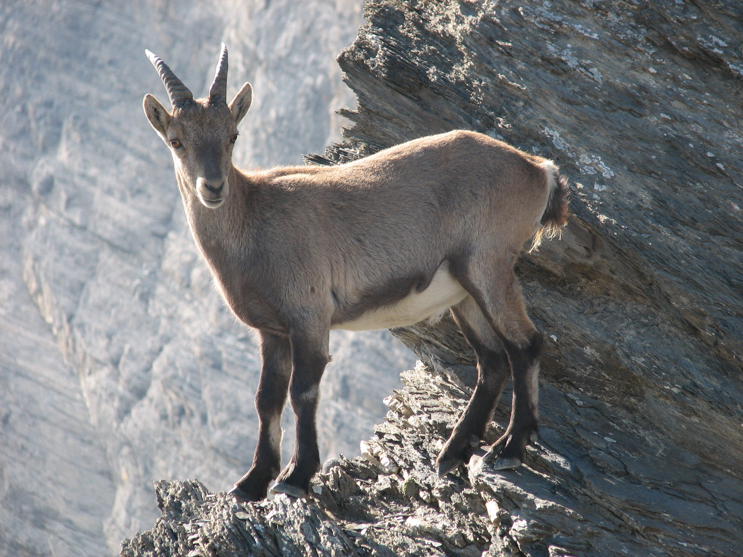 Alpine Ibex